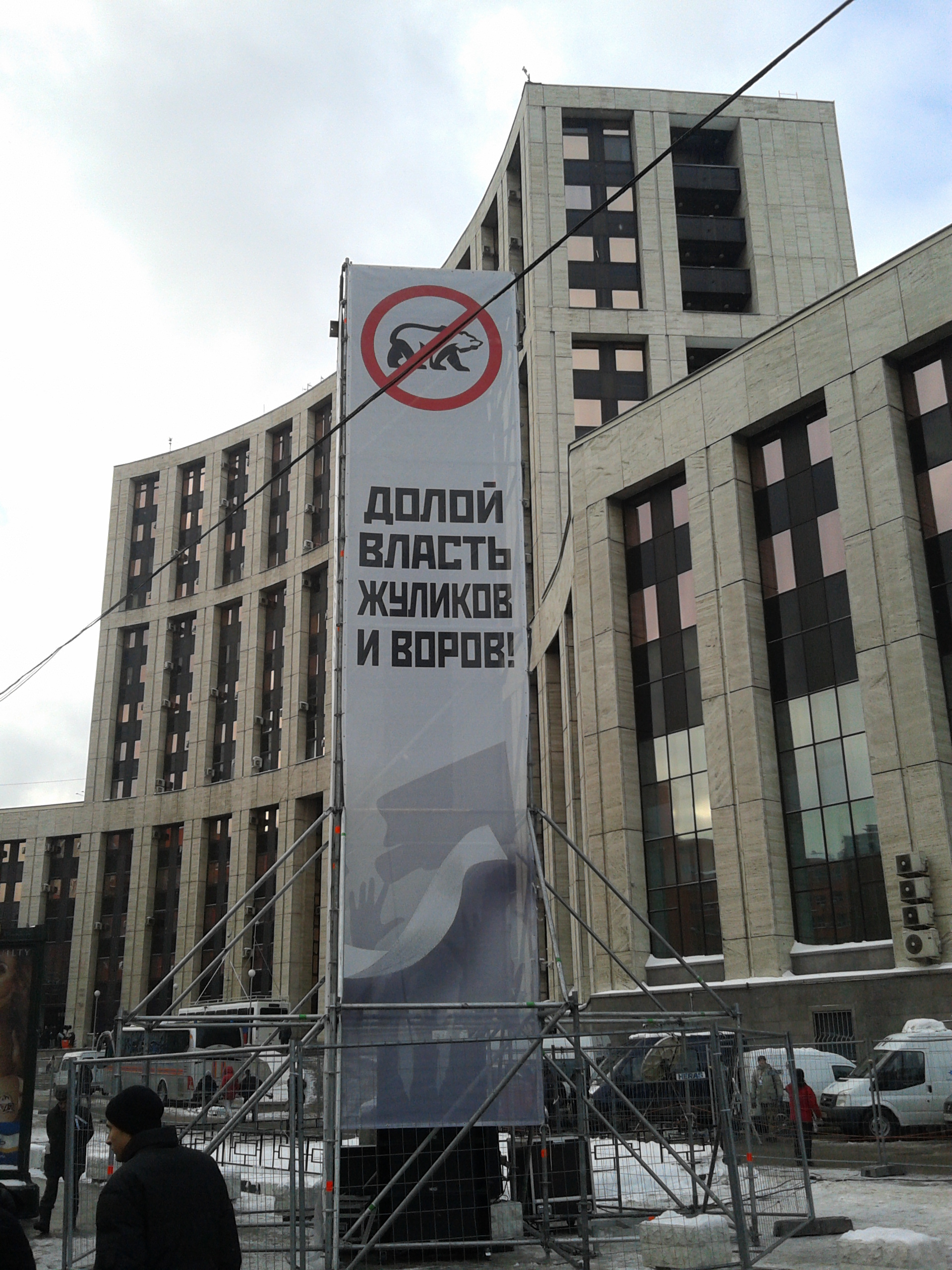 Moscow rally 24 December 2011 13:41, Sakharov Avenue. Slogan is: "Down the power of crooks and thieves!"